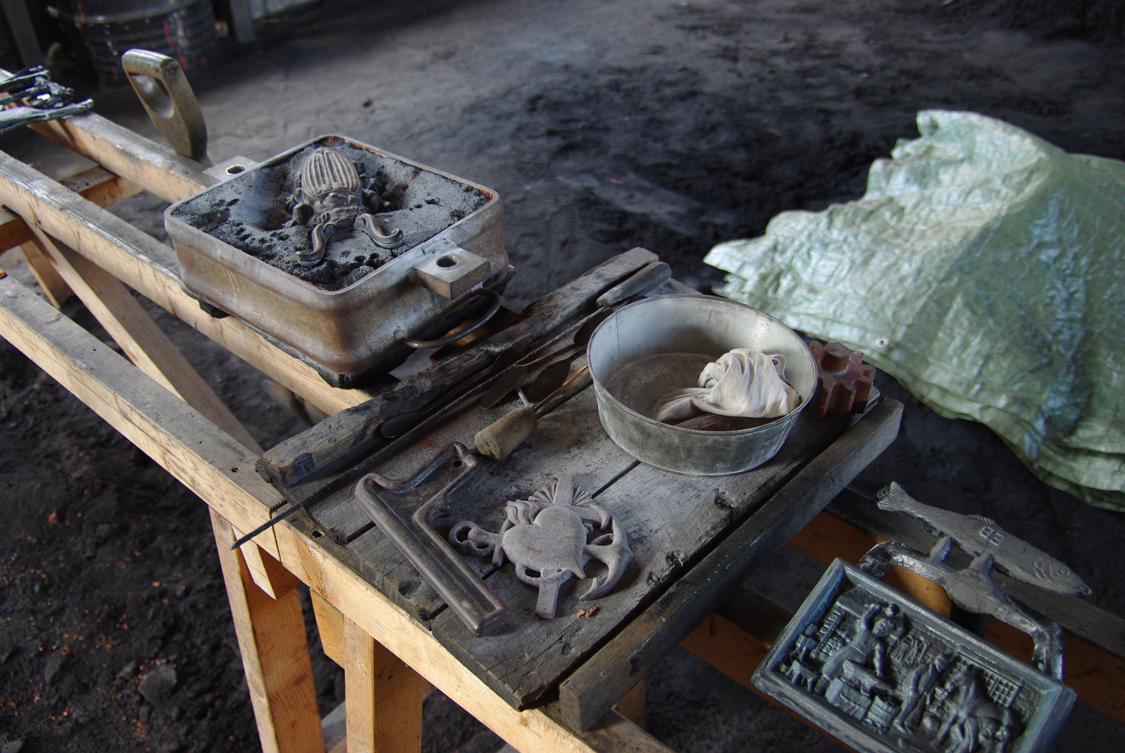 cast iron production, historicla foundery, Ebbamåla bruk